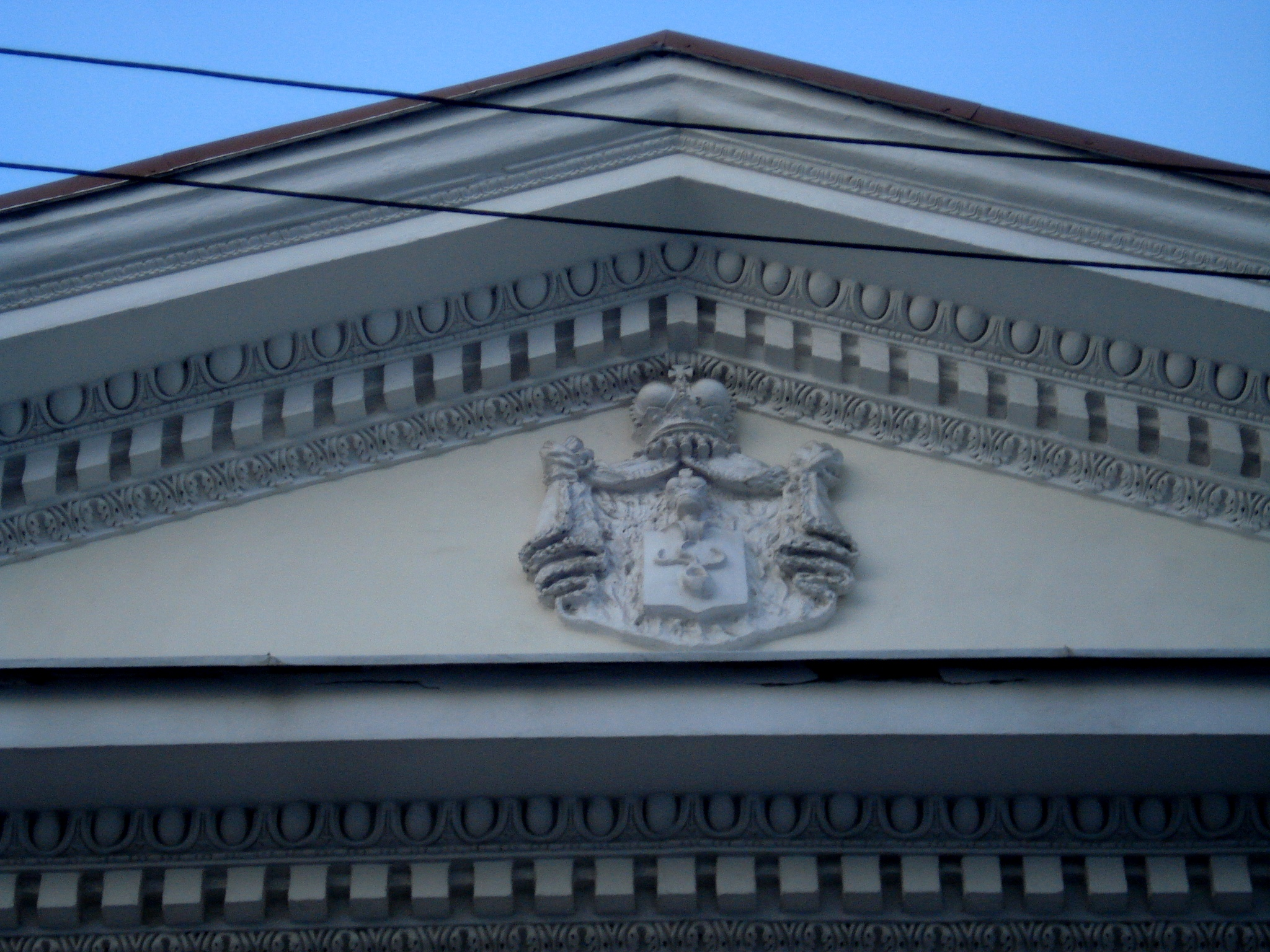 Lopacinskiai (Sulistrovskiai) Palace in Vilnius Old Town, Skapo street 4. Pediment with the сoat of arms